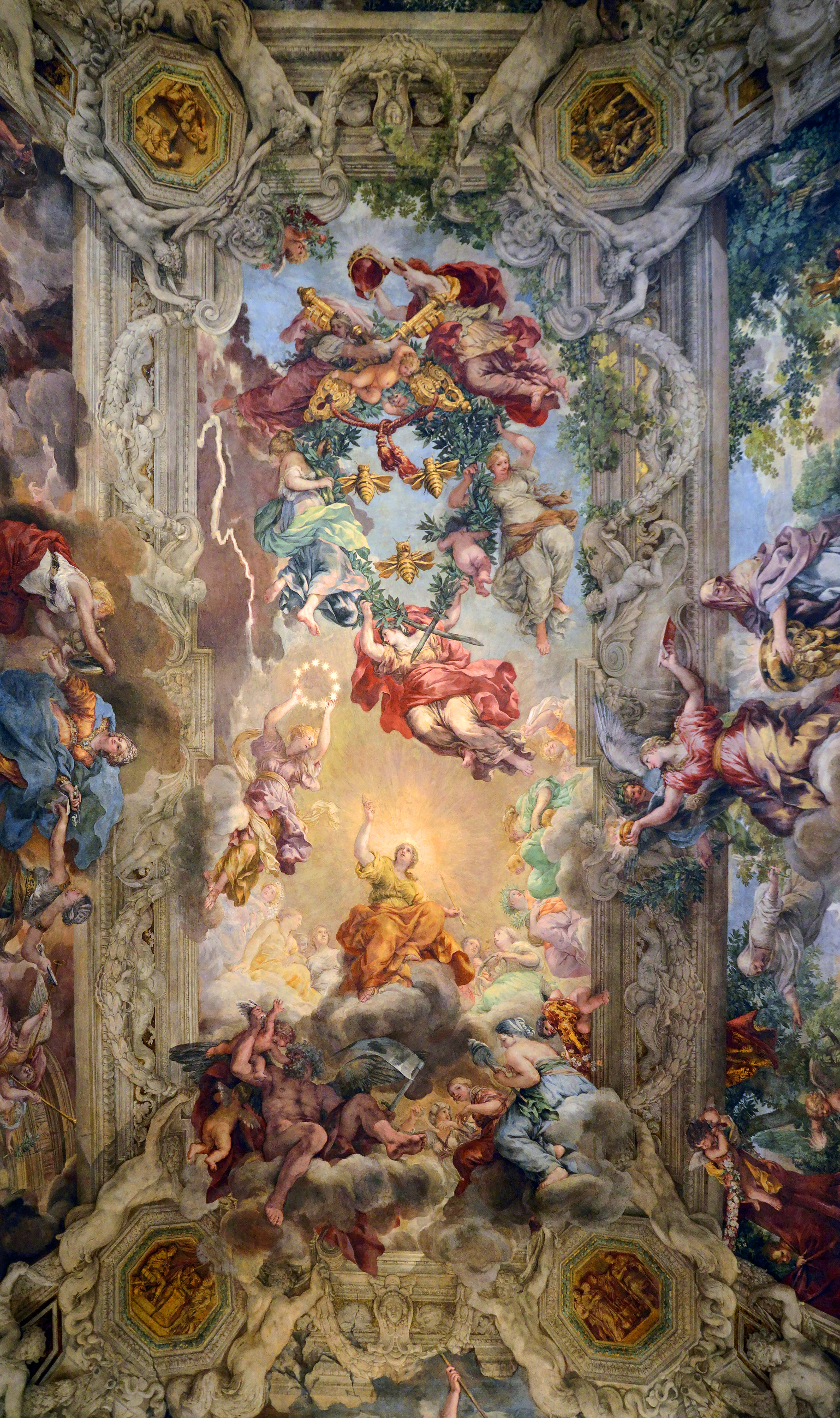 The Triumph of Divine Providence, Palace Barberini, Ceiling by Pietro da Cortona